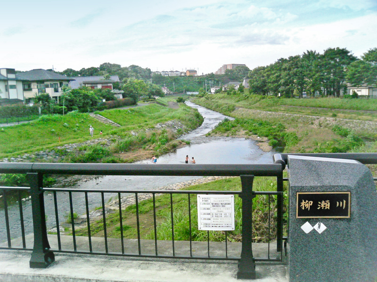 Yanase River - seeing lower reaches from Kiyose Bridge, - border of Kiyose city, (Tokyo), and Tokorozawa city, (Saitama), Japan.